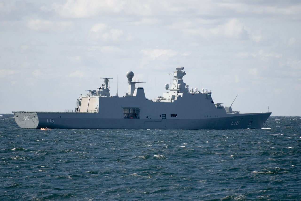 Danish navy L16 Absalon (Absalon-class command and support ships) at anchor.